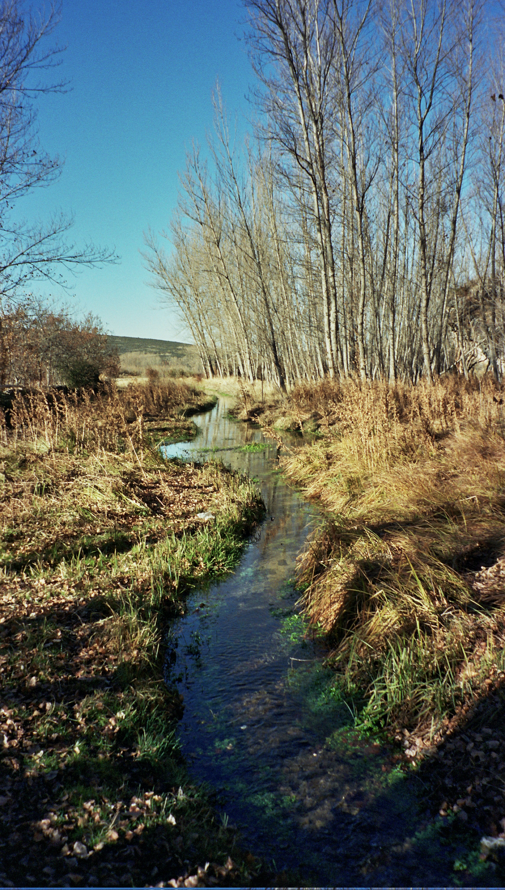 Spring of the Aguisejo river, Segovia (España)